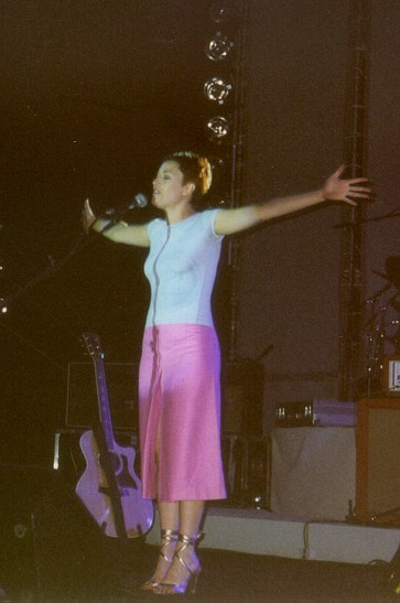 Italian songwriter Carmen Consoli at Cuneo